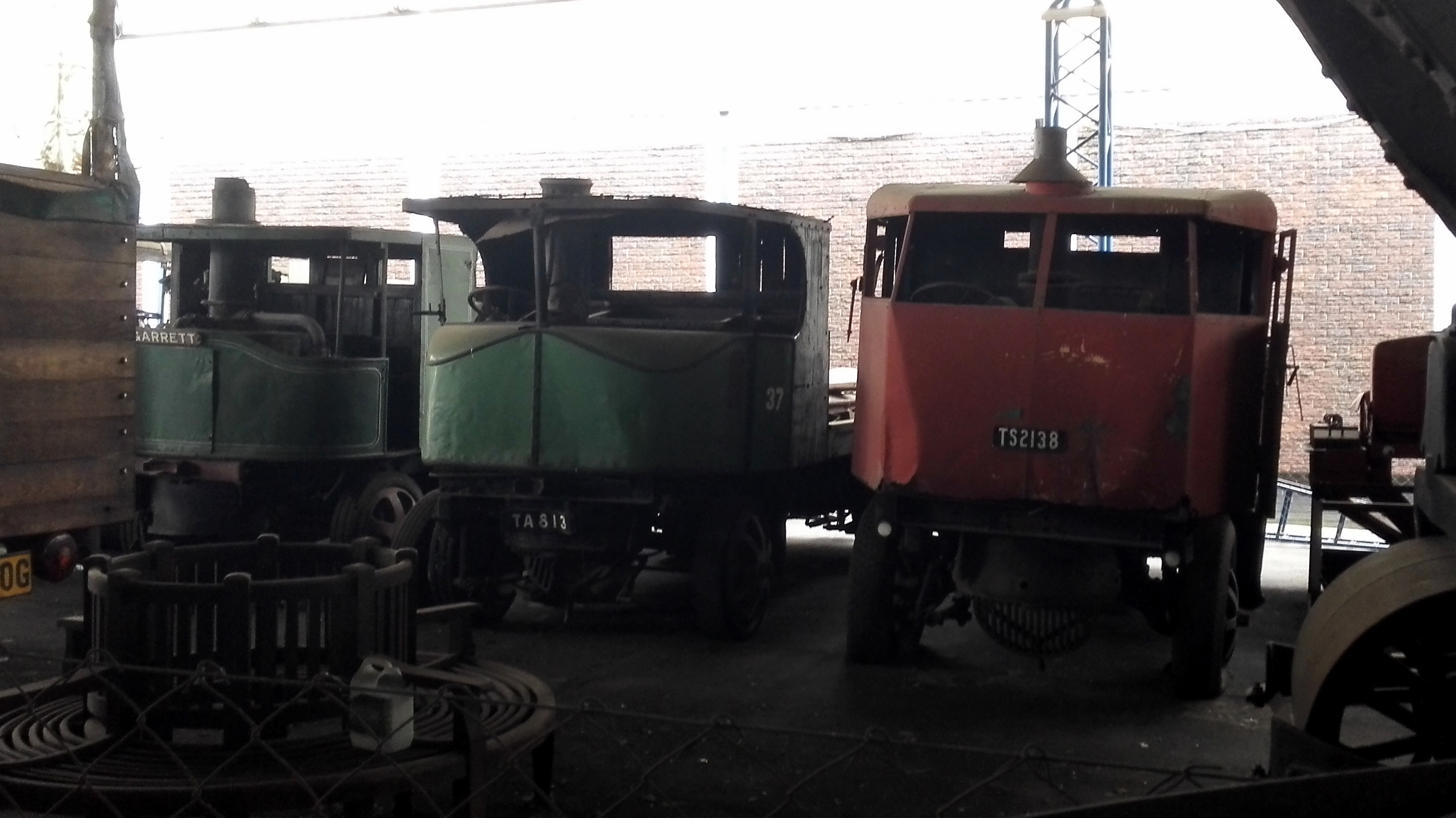 Steam driven Garrett and Sentinel trucks in the James Hall Transport Museum in Johannesburg. The wagon on the left is Garrett 35358 of 1930. The waggon in the middle is Super Sentinel 6795 of 1927. The waggon on the right is Sentinel DG 8415 of 1931, which has been modified to resemble a later Sentinel S-type.